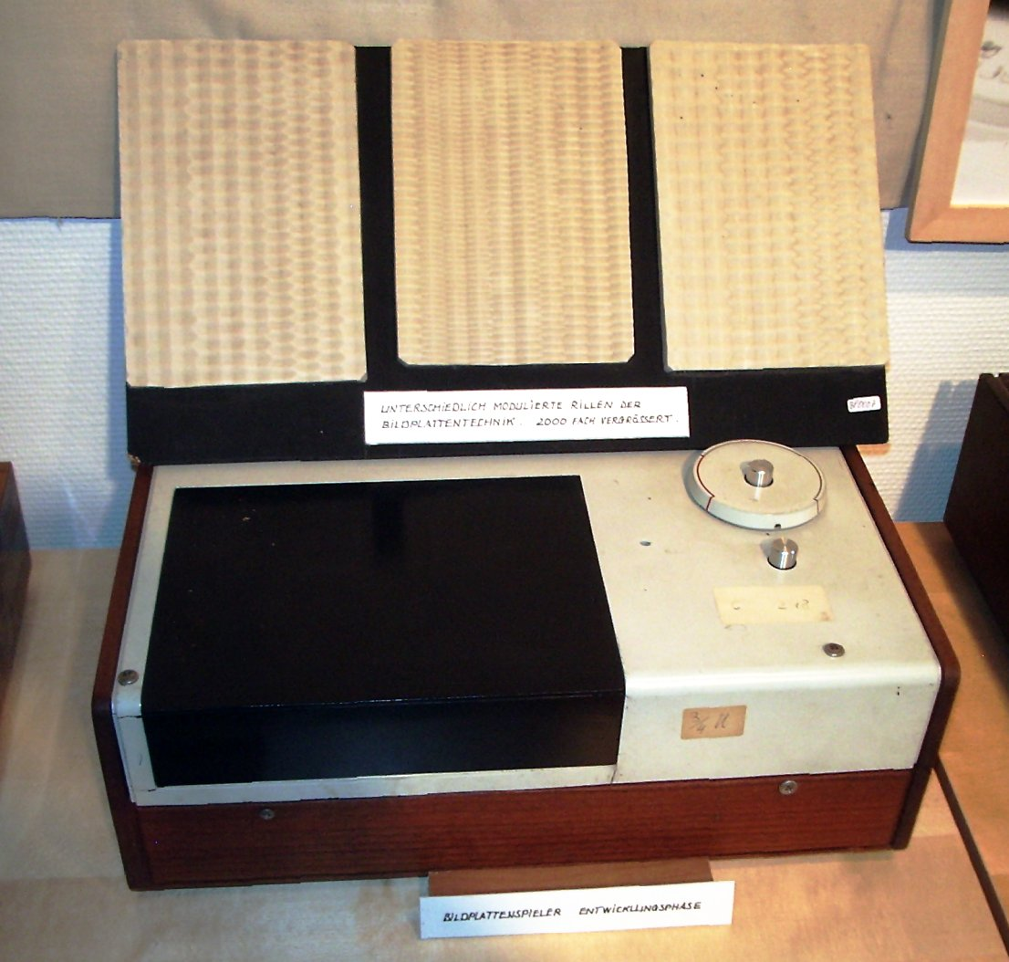 Design prototype of a player for the Telefunken TED video disc. The three white plates on top of the player are enlarged specimen of the grooves in a TED video-disc, containing the frequency-modulated video signal.